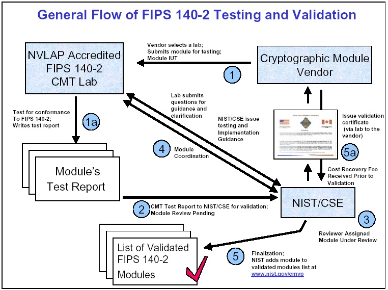 A diagram which maps the general flow of the CMVP FIPS 140-2 testing process.